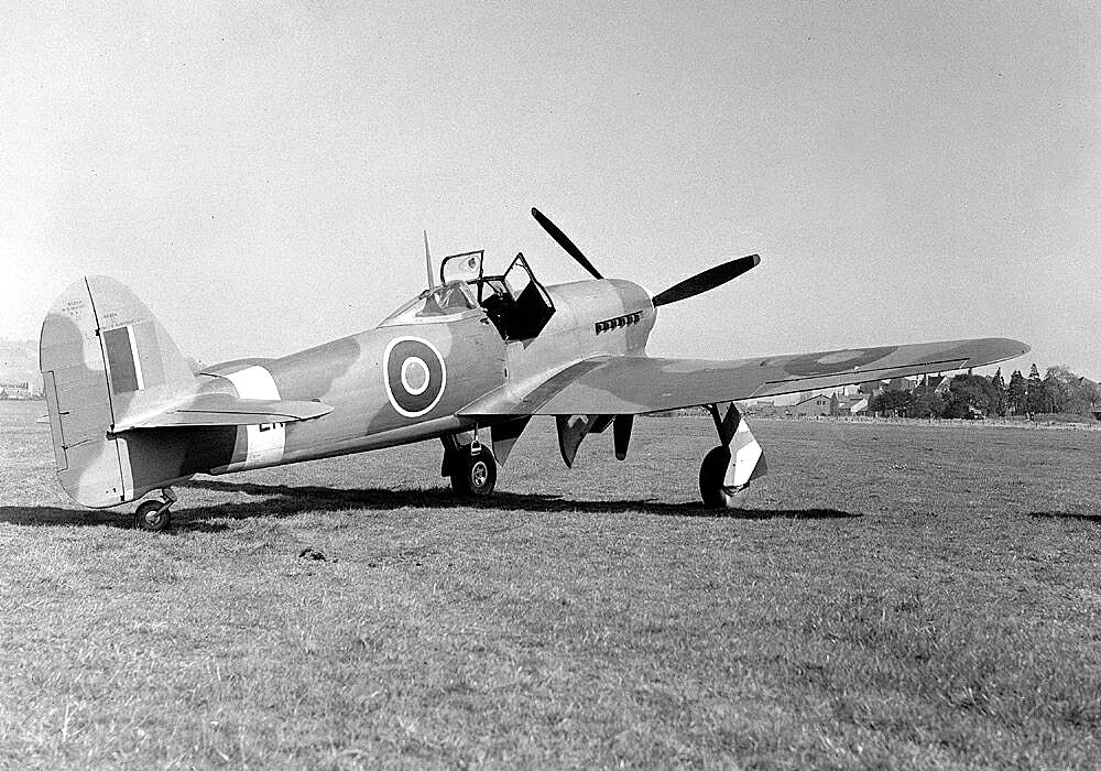 Brand new Hawker Typhoon at Hucclecote